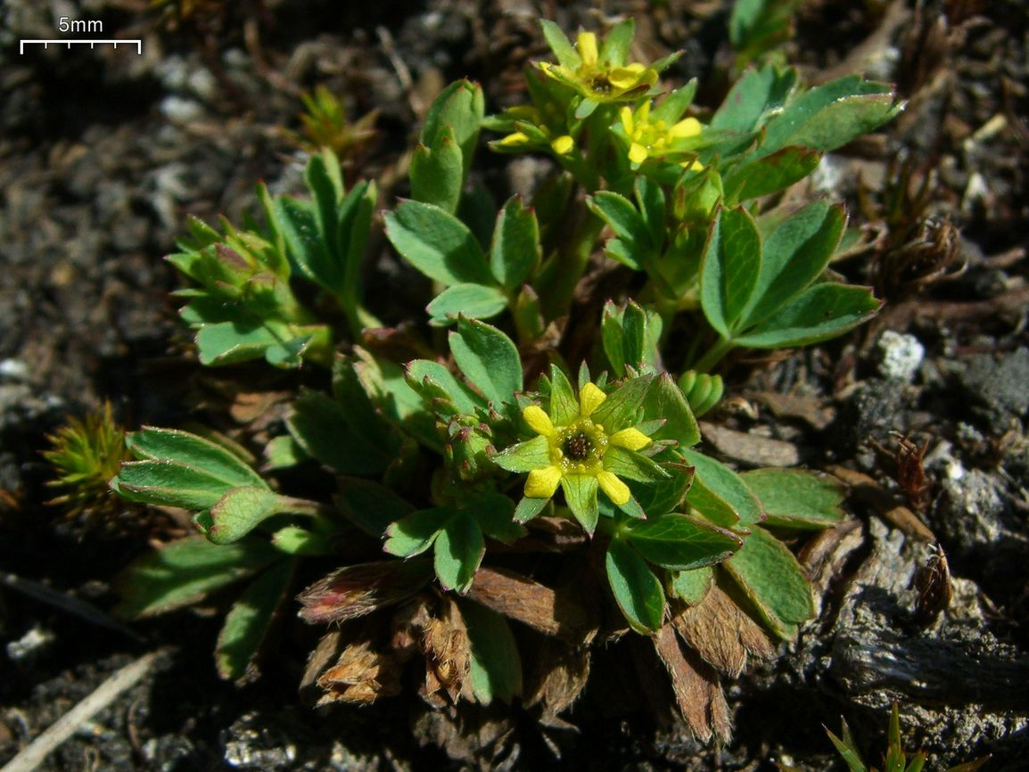 Sibbaldia procumbens on Table Mountain, Wells Gray Park, BC, Canada